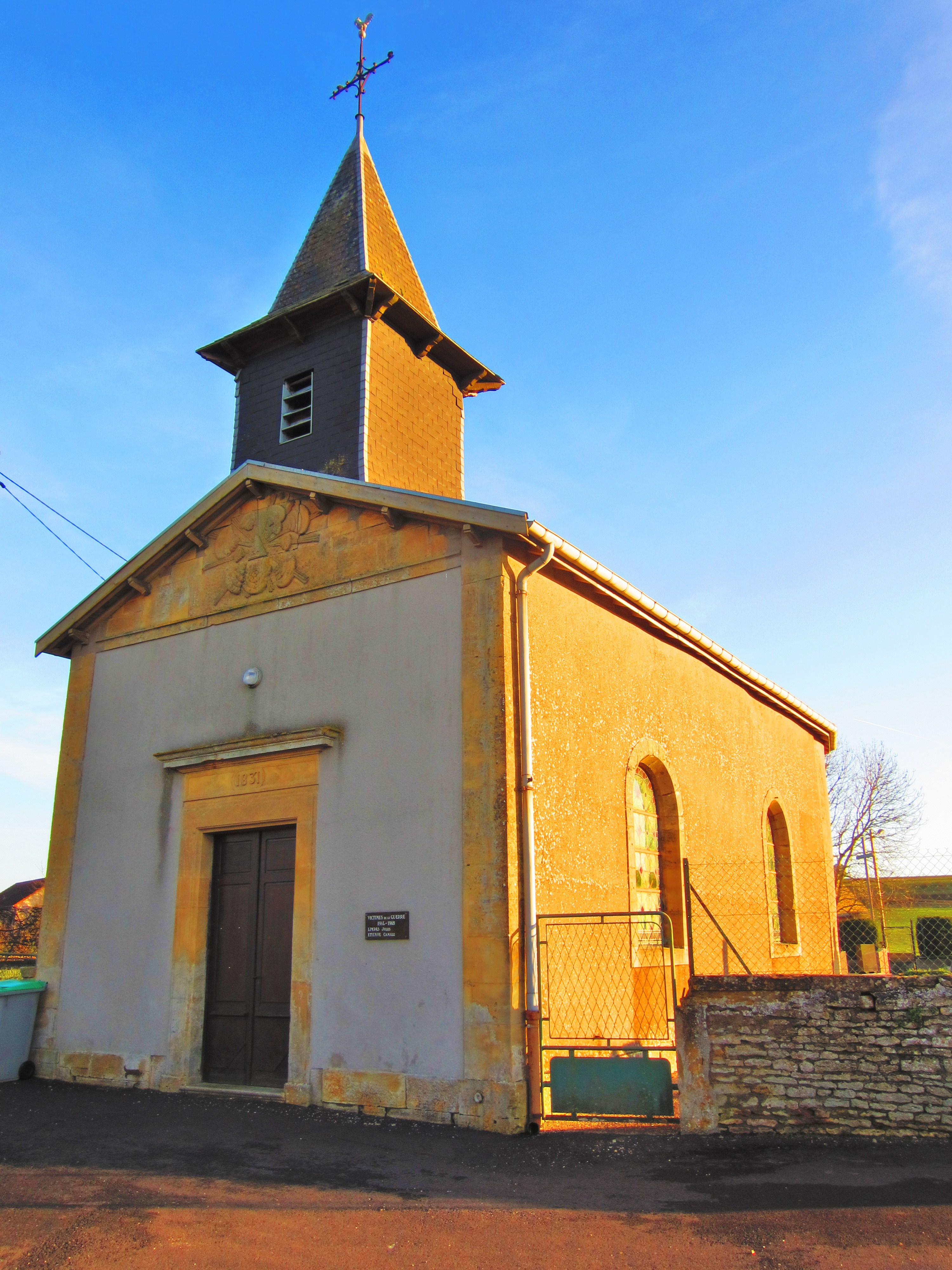 Haucourt la Rigole church